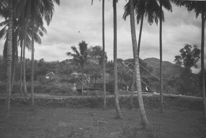 A suspension bridge at Enrekang